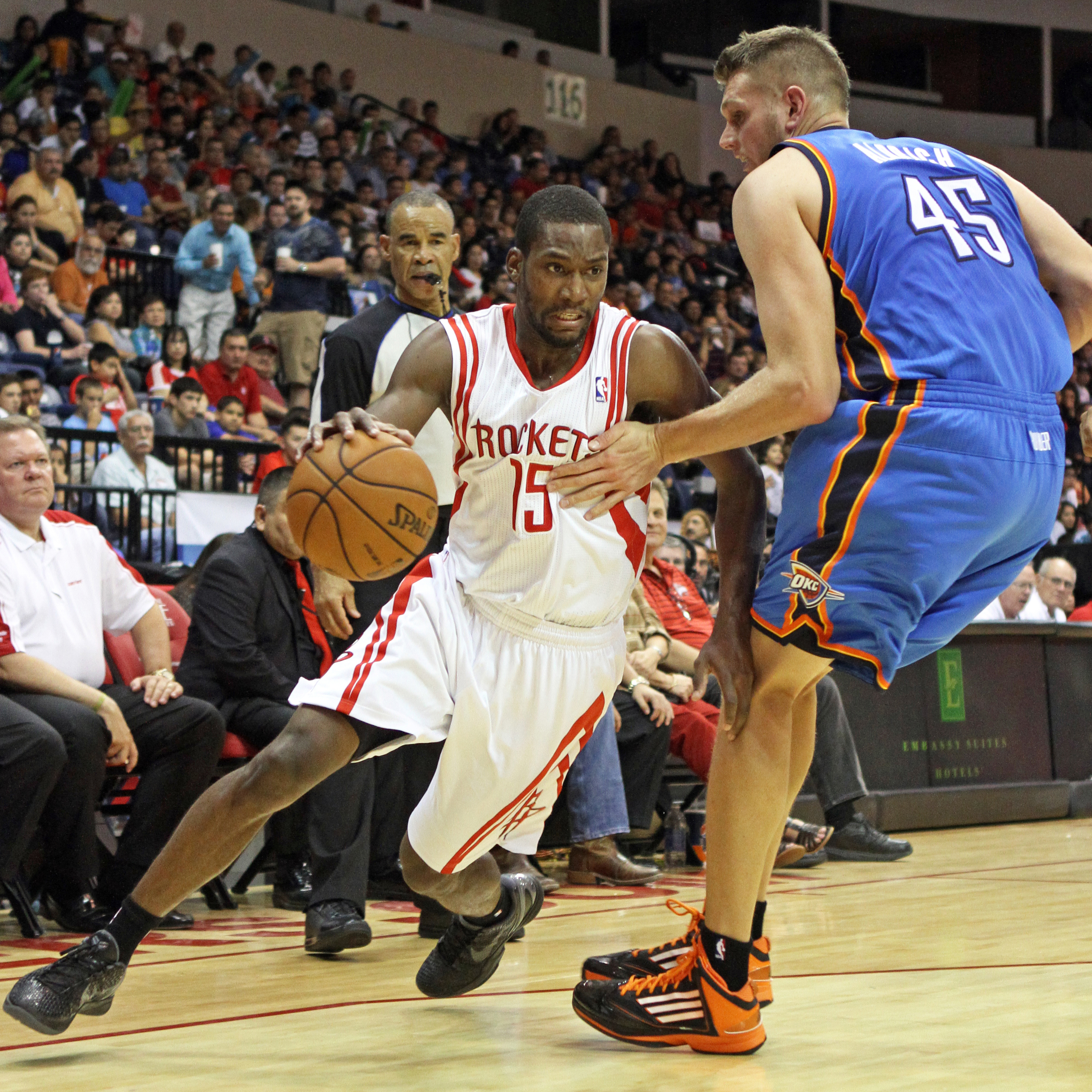 Toney Duglas